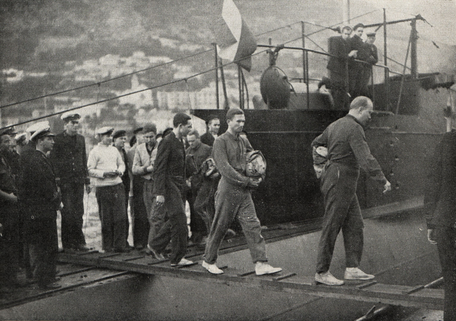 HNLMS O 21 puting ashore survivors of the German submarine U-95 at the harbour of Gribaltar.